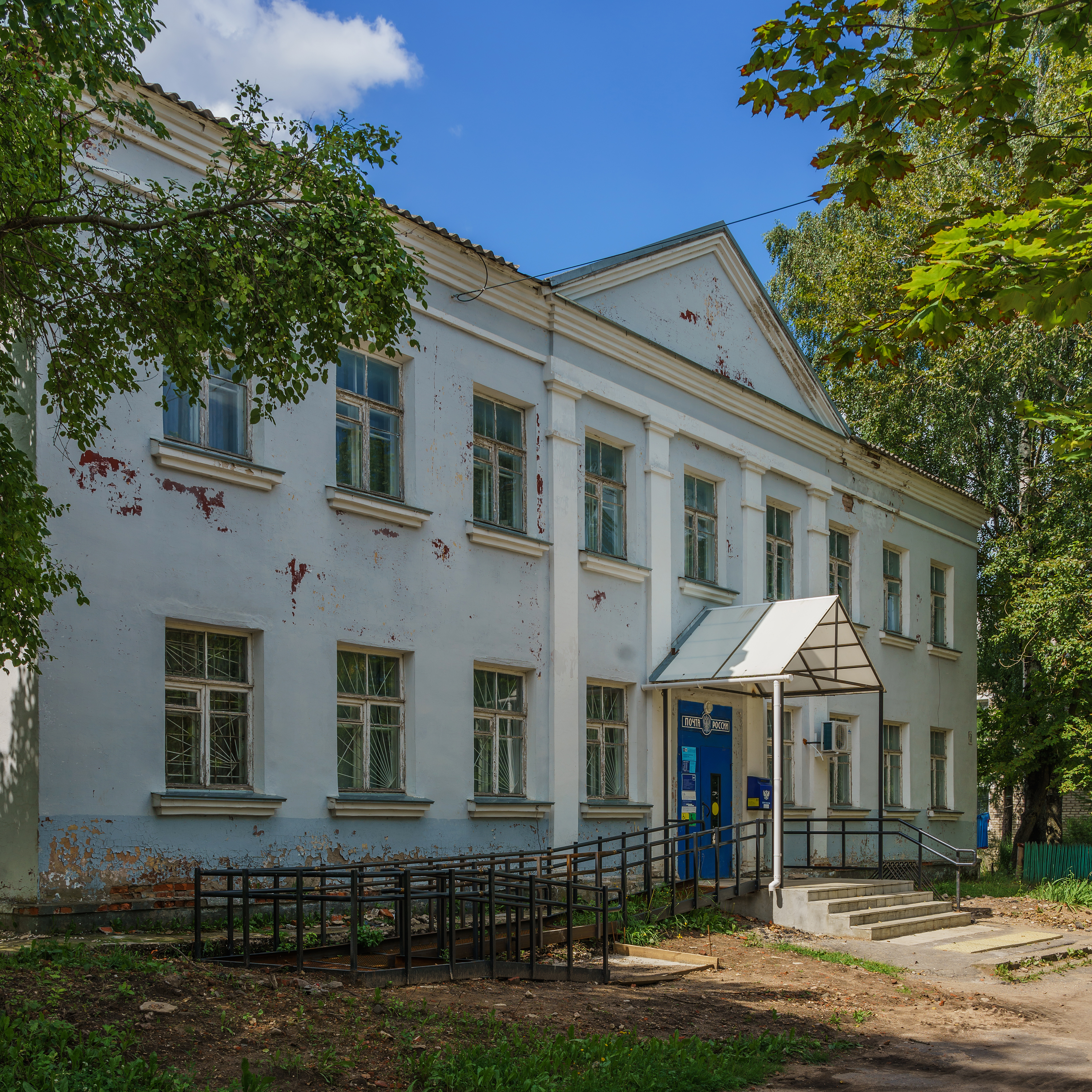 Post office in Novorzhev, Pskov Oblast, Russia.